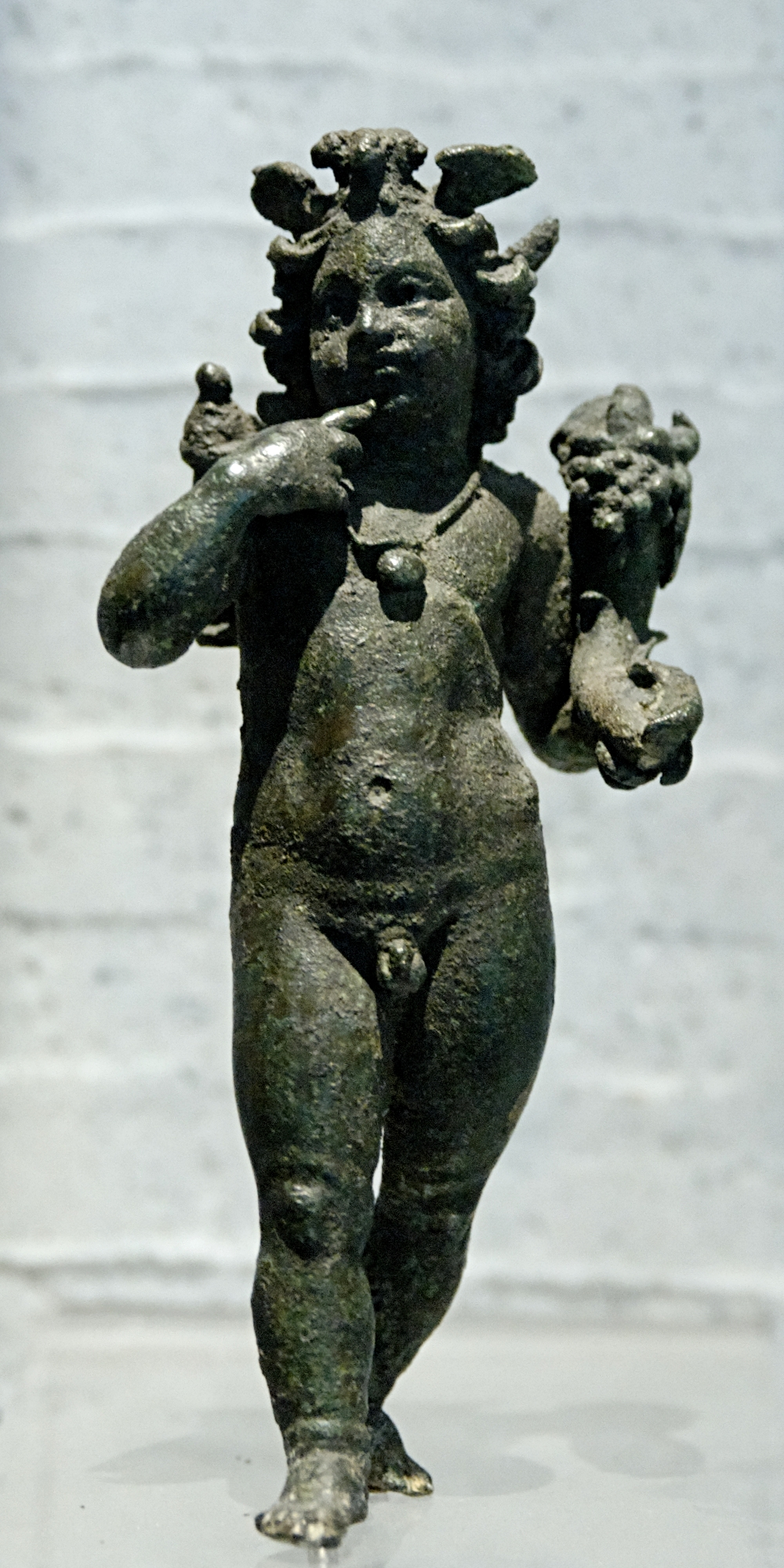 Harpocrates. Bronze, Roman artwork, 2nd–3rd centuries AD. From the area of Dijon, France.